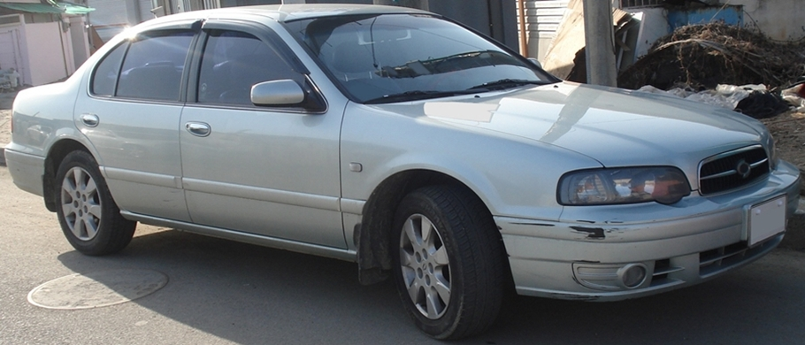 Renault Samsung SM5